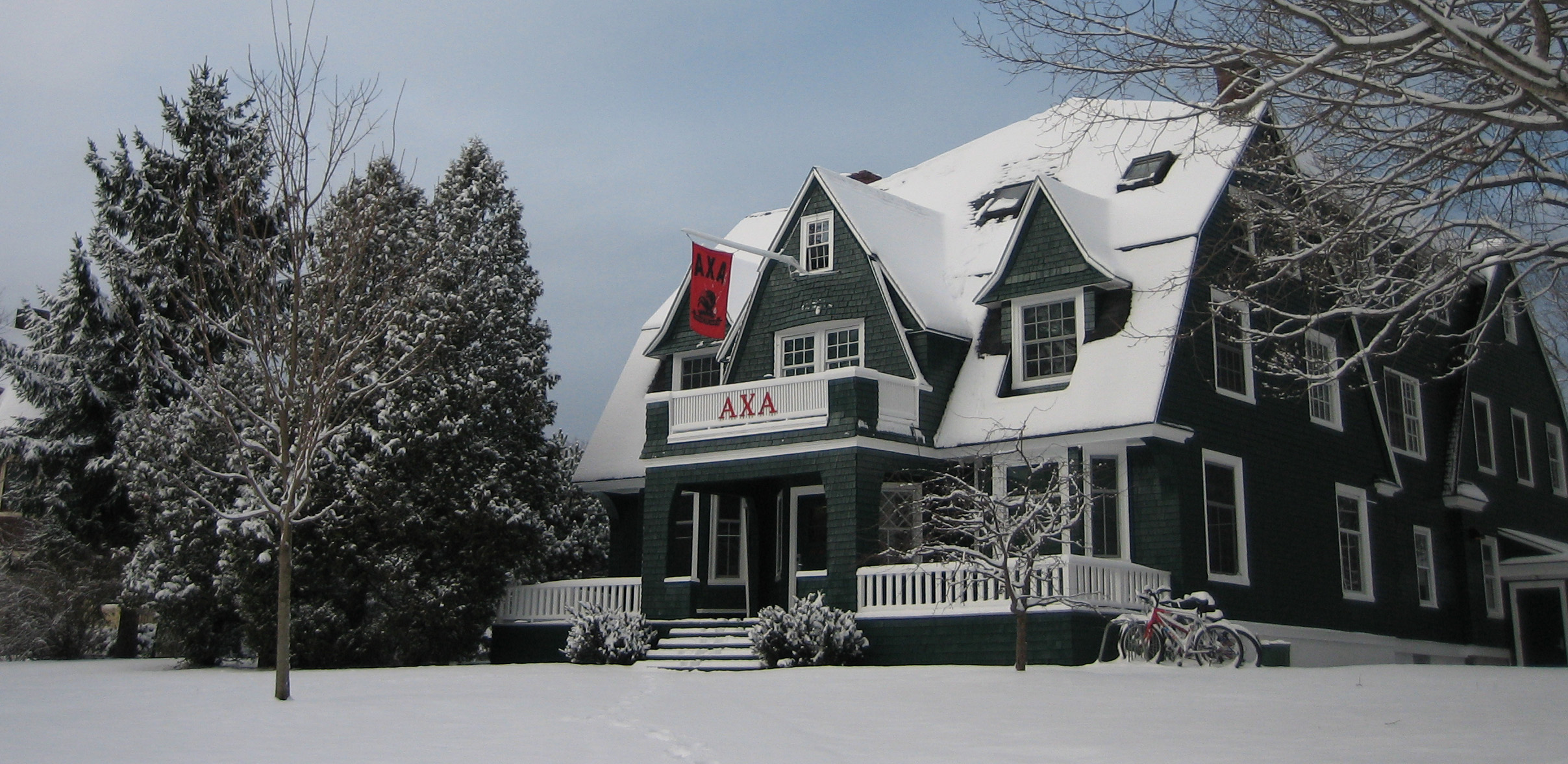 I made this image myself.